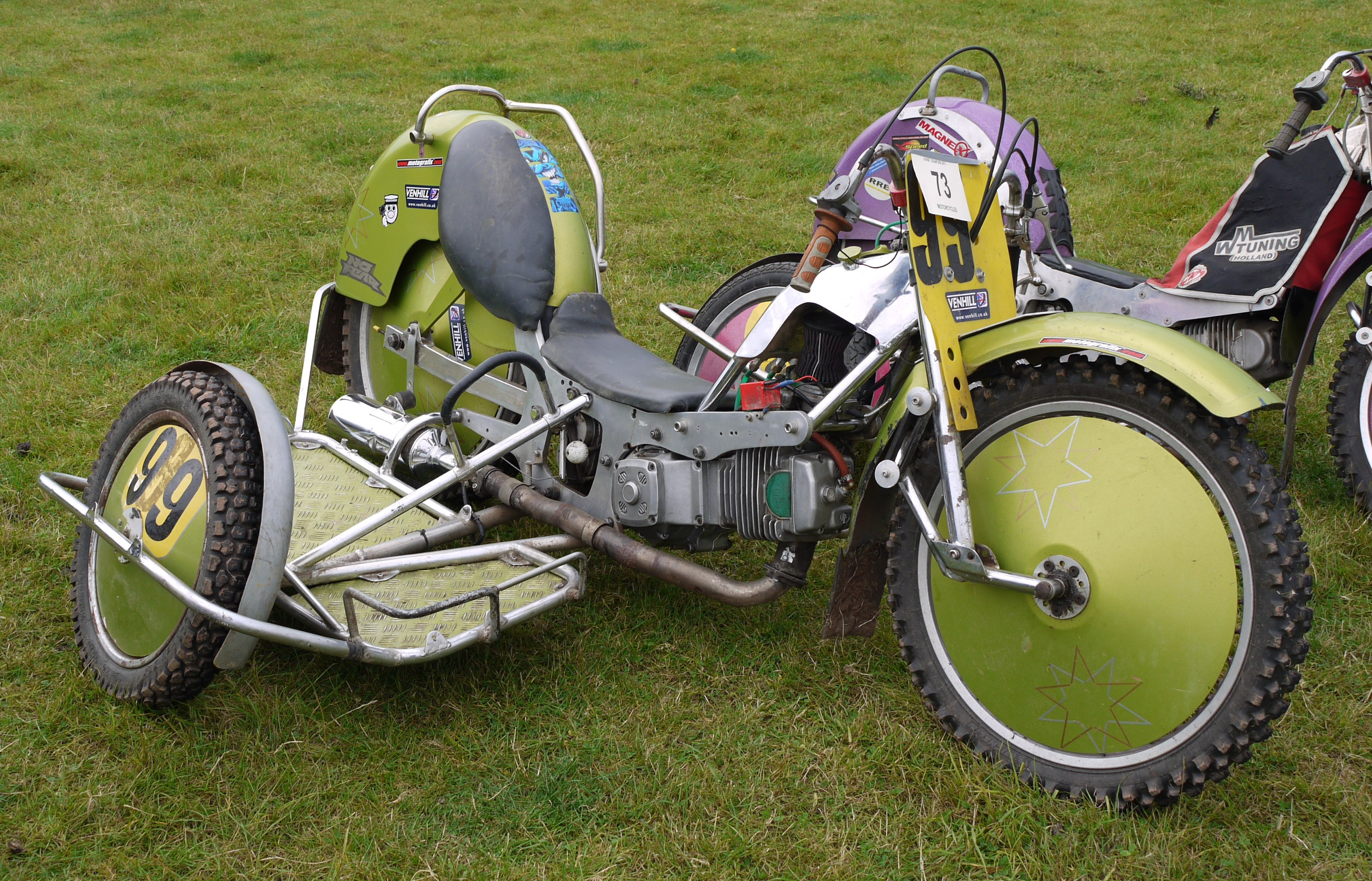 Speedway Motorcycle and Sidecar. Panasonic G1 14-45 Lens